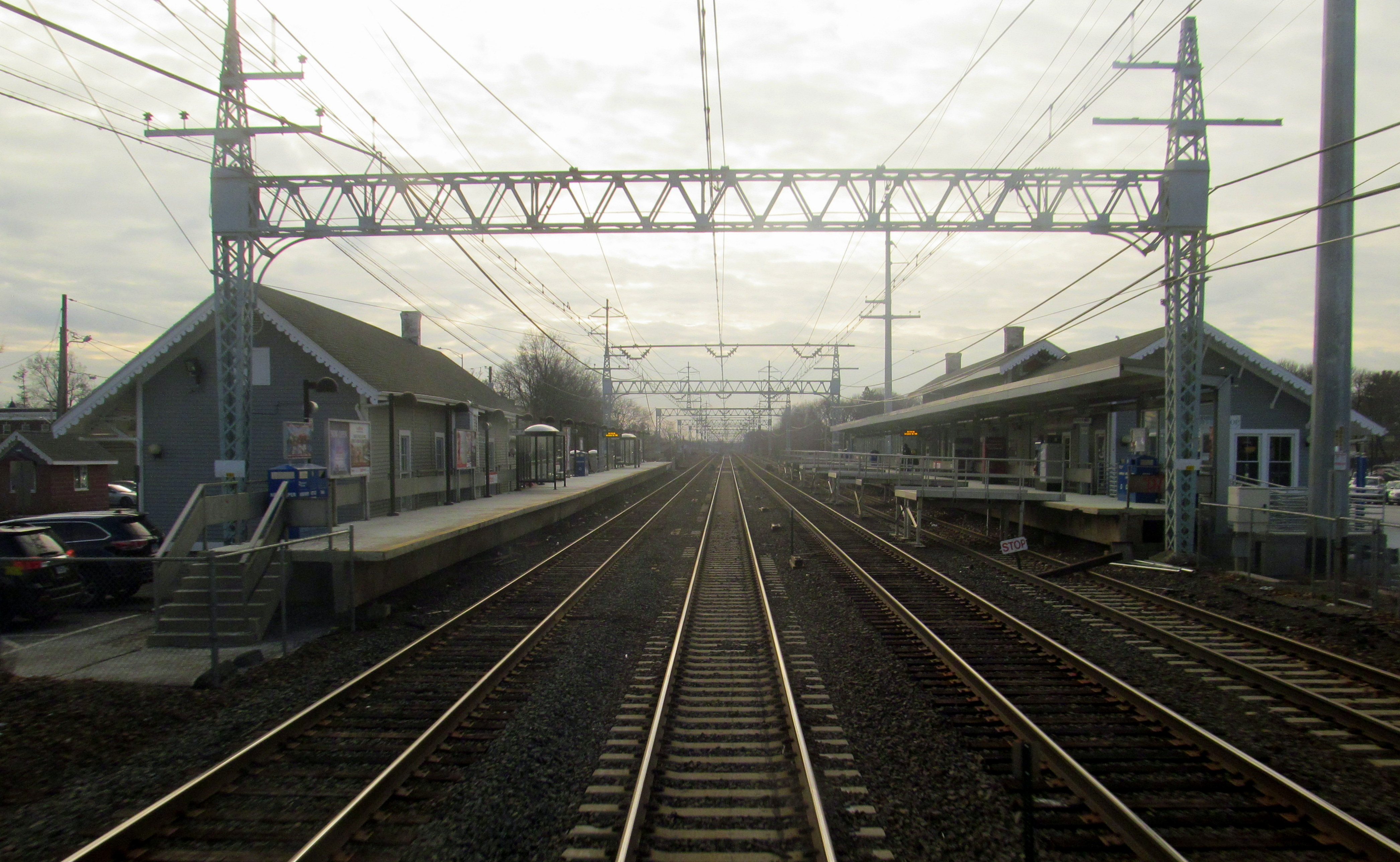 Stratford station viewed from an Amtrak train in January 2016